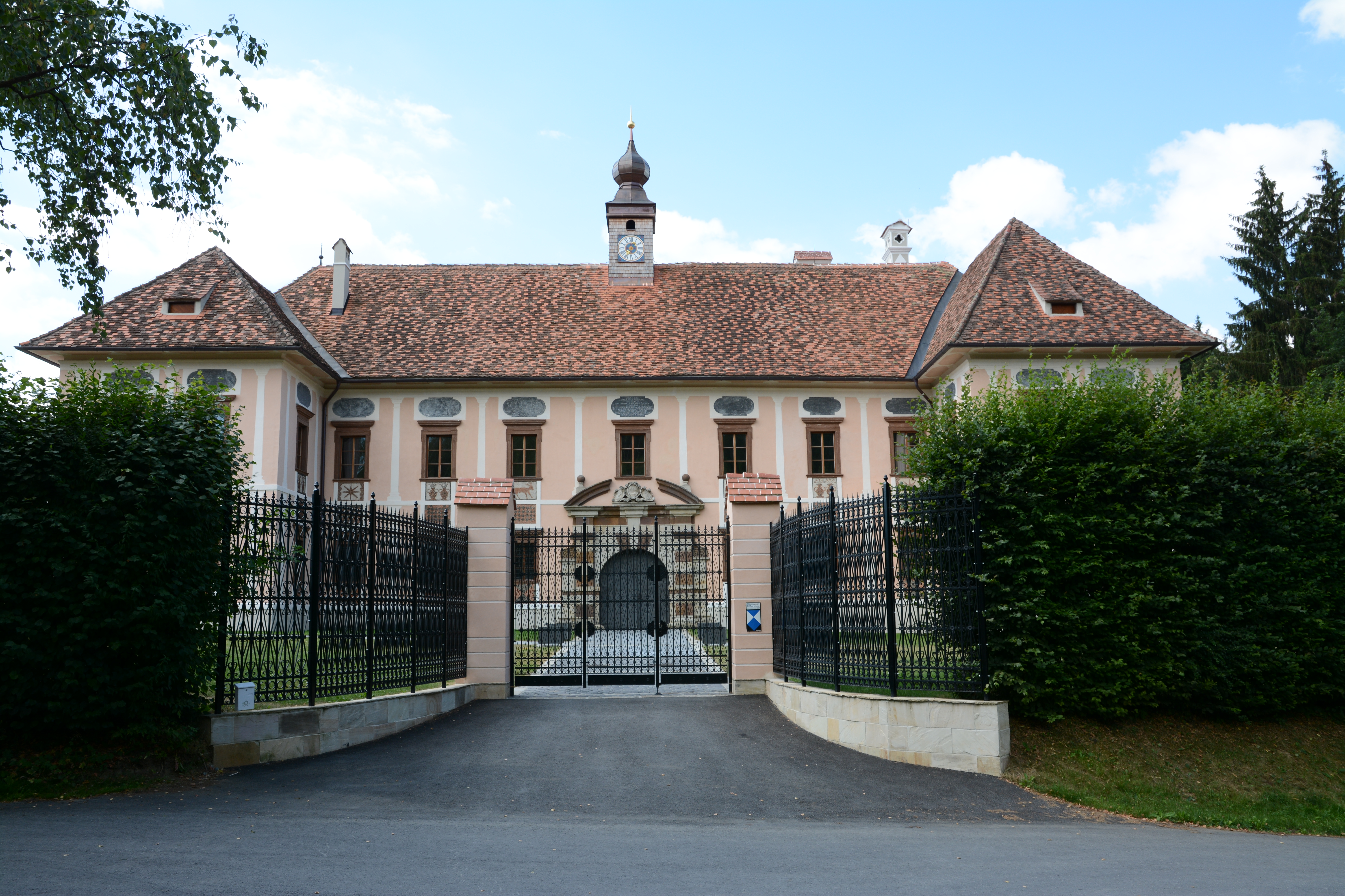 Castle Schloss Külml